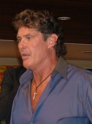 Actor David Hasselhoff at Virgin Megastore London